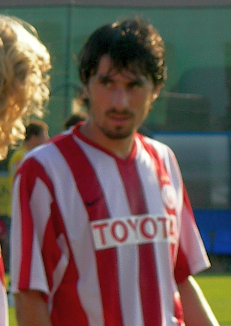 Red-Star-Belgrade-player Milan Biševac during the international pre-season friendly Red Star Belgrade (Serbia-Montenegro) vs FC Gratkorn from Austria on 7 July 2006 at the football ground in Wolfsberg im Schwarzautal (Styria / Austria)